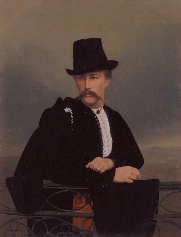 Portrait of Vasili Tarnowsky